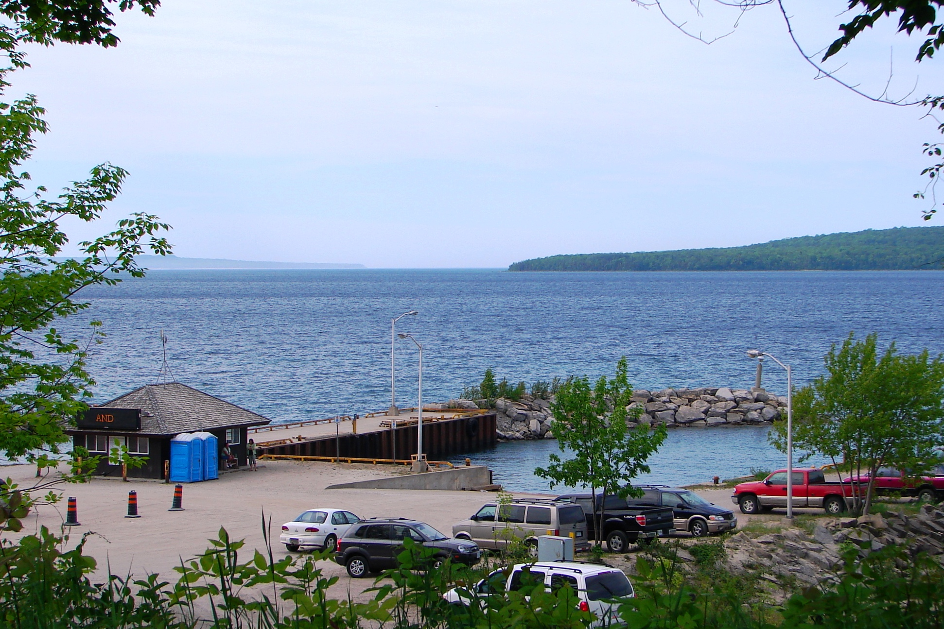 Ferry terminal in Cedar Point (Tiny Township, Ontario, Canada) to Christian Island. Beckwith Island on the right with Hope Island in the distance on the left. All 3 islands are part of an Ojibwa First Nation reserve.